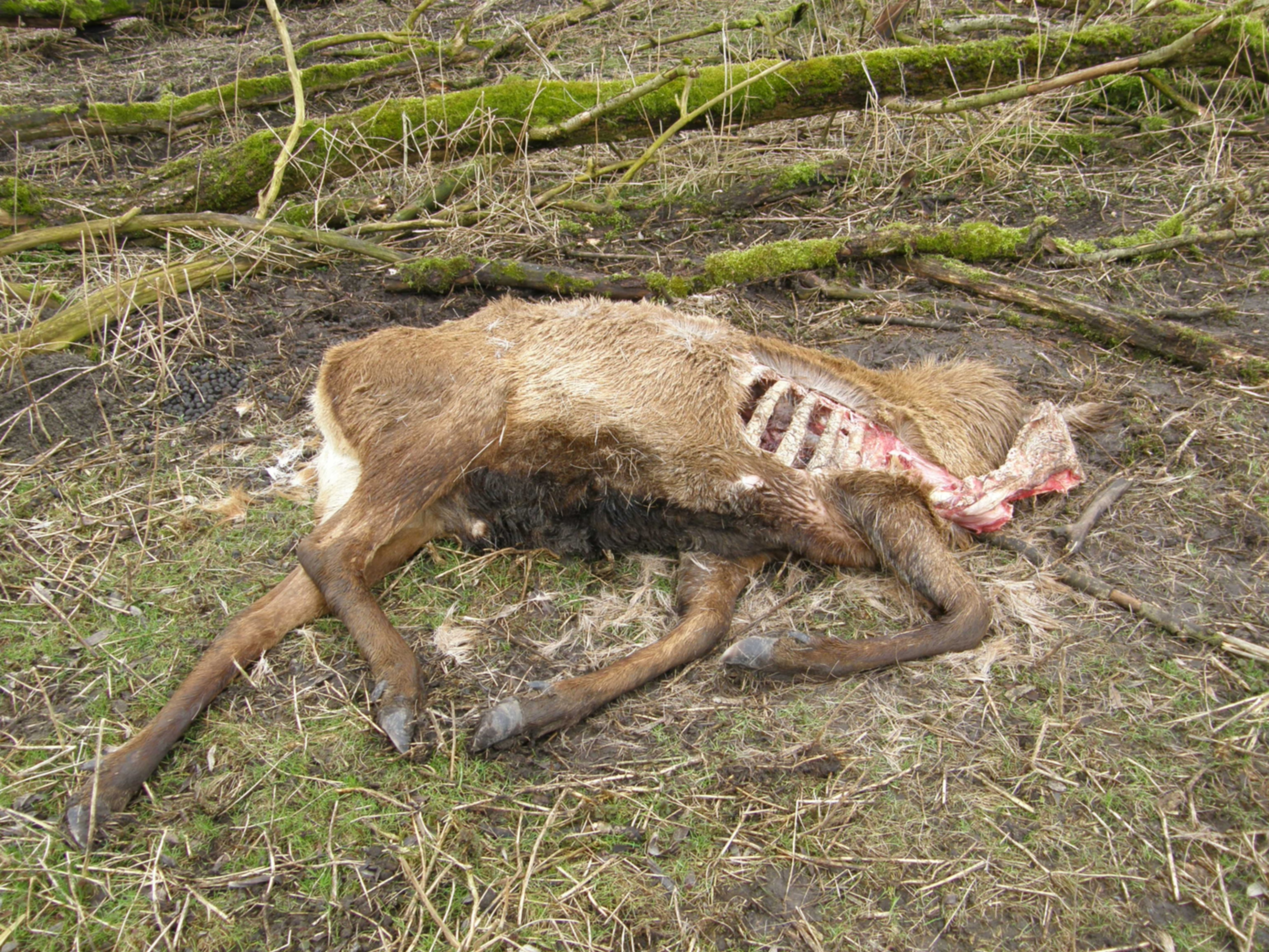 A dead deer shot in the Oostvaardersplassen because it was too weak to survive. In order to prevent trophee hunters to enter the nature reserve, the deer are decapitated